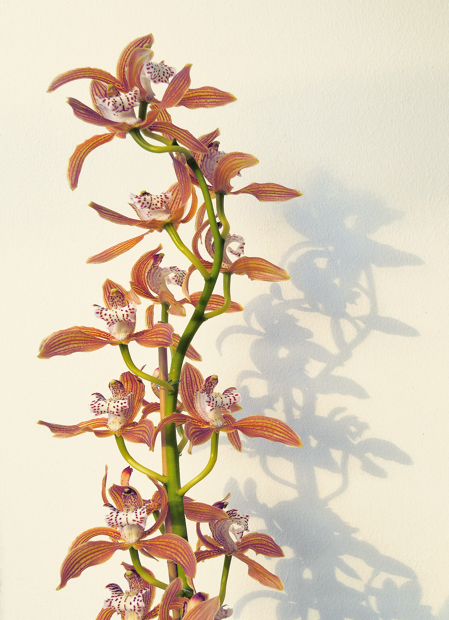 Orchidaceae hybrid Cymbidium "Doris" in the Berggarten in Hanover, Germany.